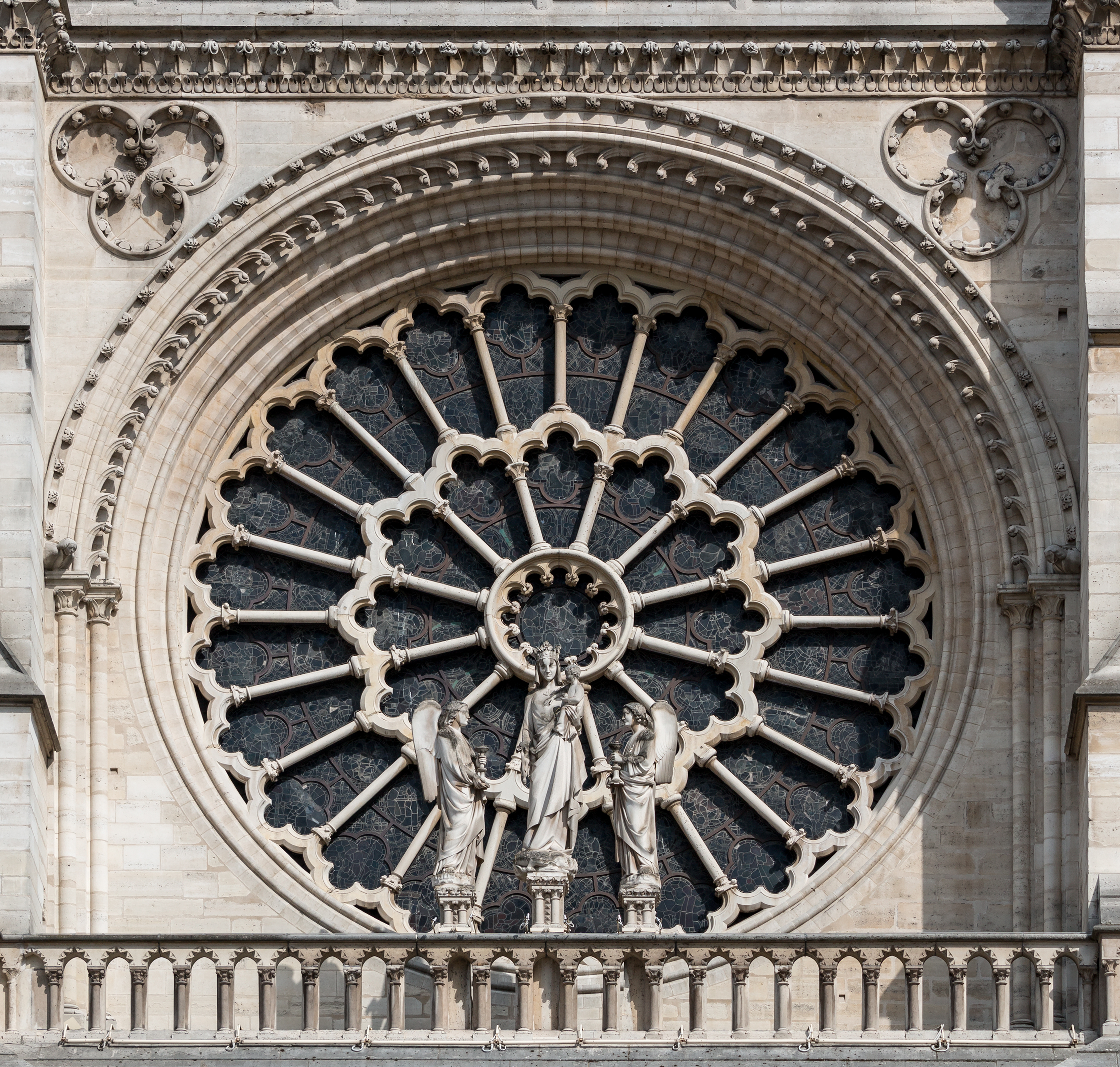 Detail of the west facade of Notre-Dame, Paris, France . Sculpture TitleSkulpturArtistUnknown artistDate13th century date QS:P,+1250-00-00T00:00:00Z/7